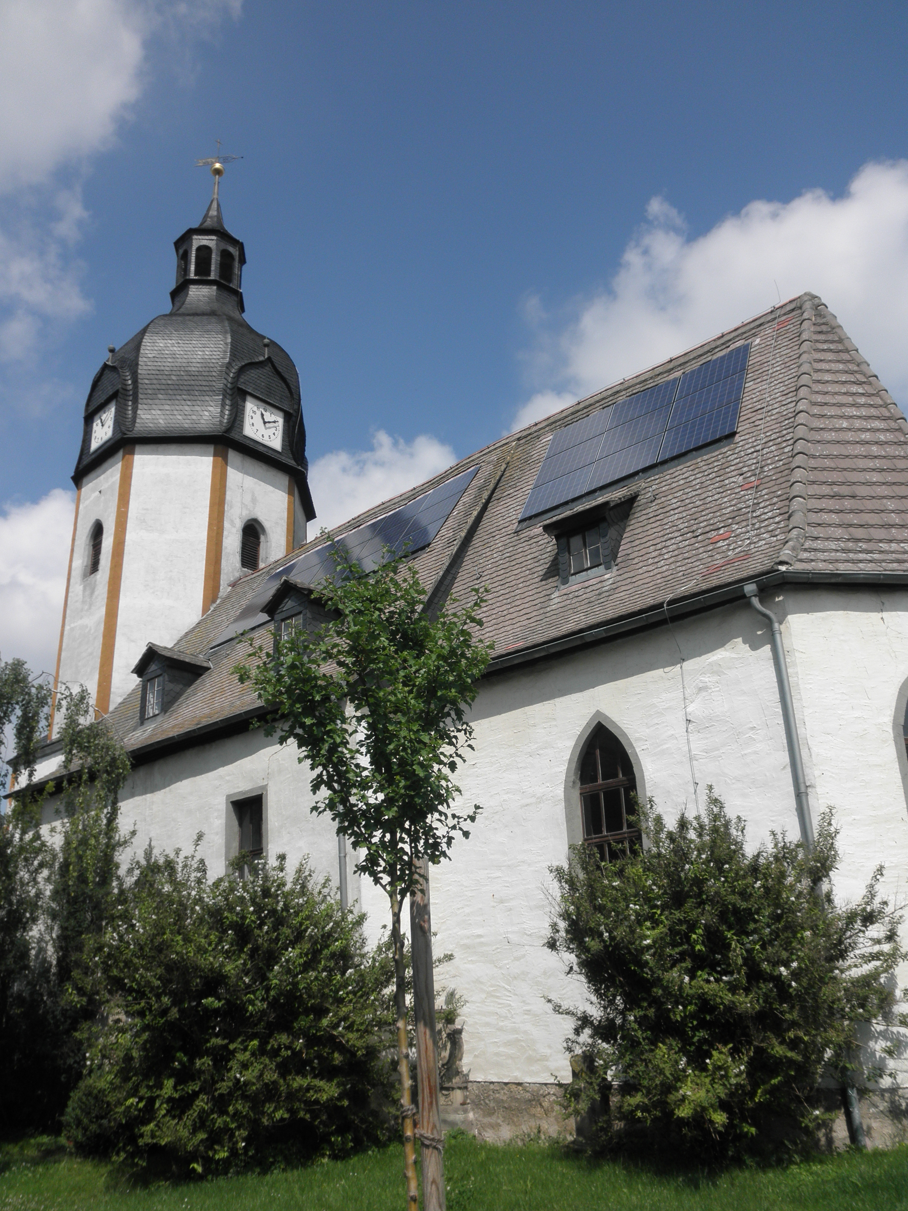 Church in Wormstedt (Saaleplatte) in Thuringia